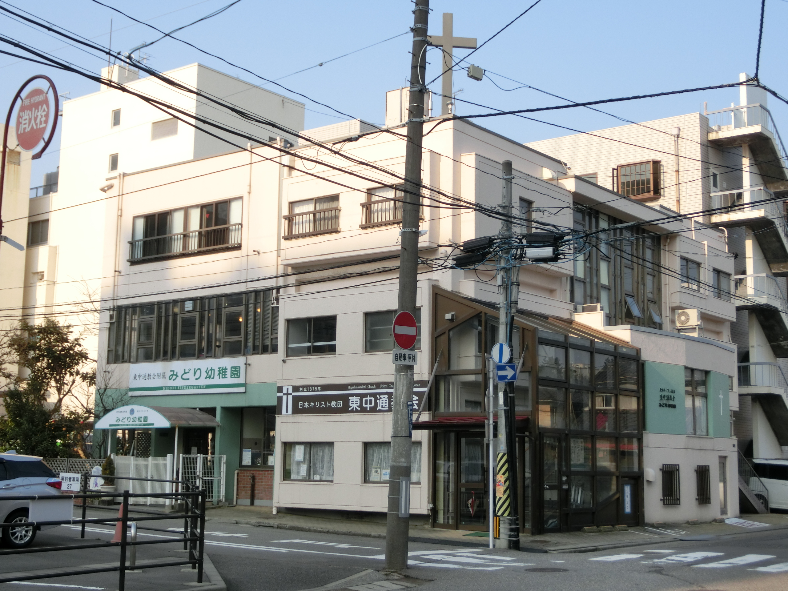 UCCJ Higashinaka-dori Church